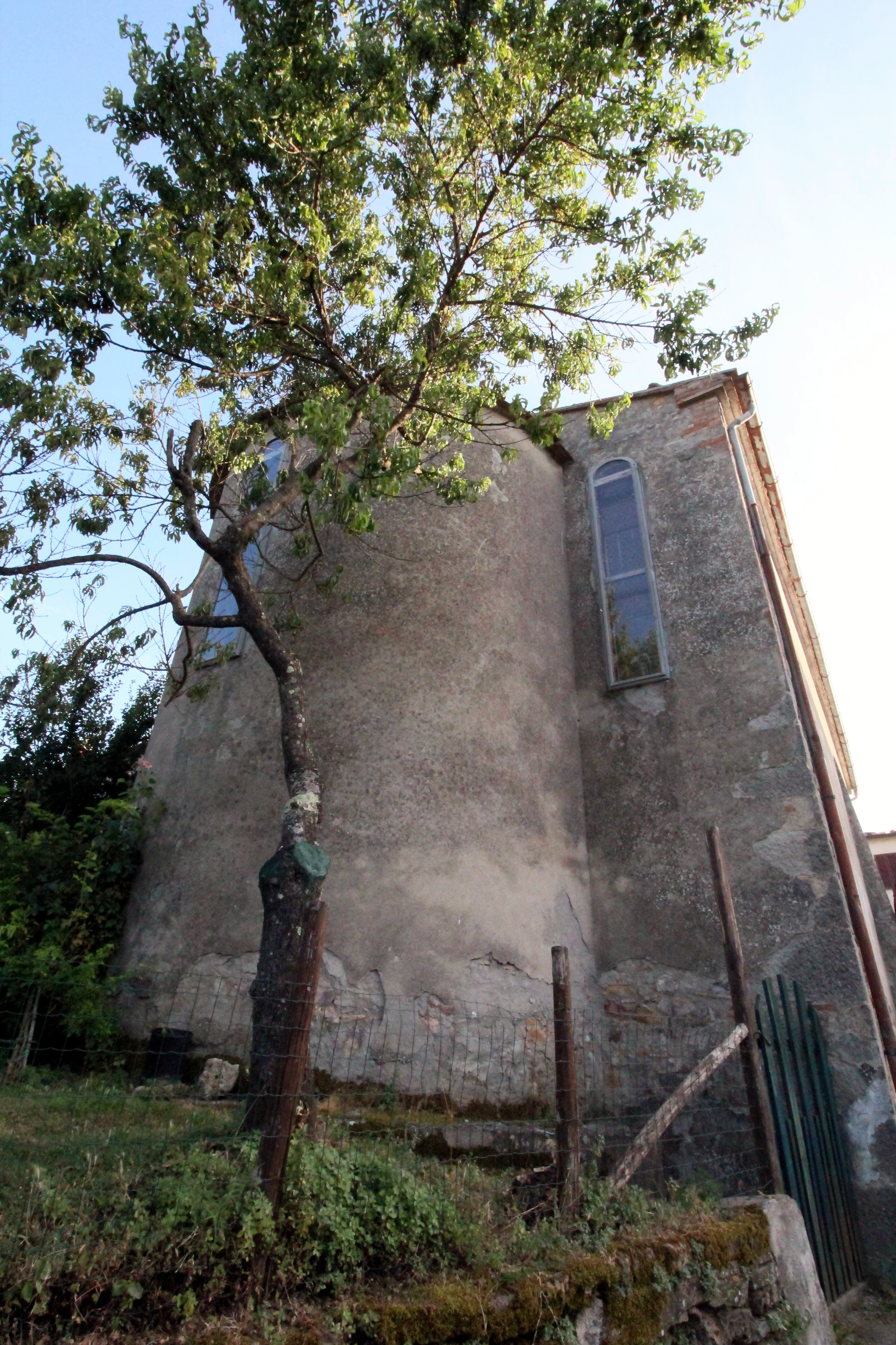 Apse of the San Biagio Church in Scalvaia, hamlet of Monticiano, Province of Siena, Tuscany, Italy